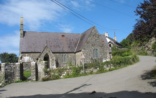 Eglwys St Dona Church, Llanddona, near to Llanddona, Isle of Anglesey/Sir Ynys Mon, Great Britain. St Dona's church was established by a member of the Welsh royal family, St Dona ab Selyv ab Cynon ab Garwyn ab Brochwell Ysgythroe in 610 CE. His feast is celebrated on 1st of November. The present building dates back to 1878, though the porch dates from the 15th century. It is now part of the benefice of Llansadwrn w Llanddona and Llaniestyn w Pentraeth w Llanddyfnan in the deanery of Tinaethwy. Link